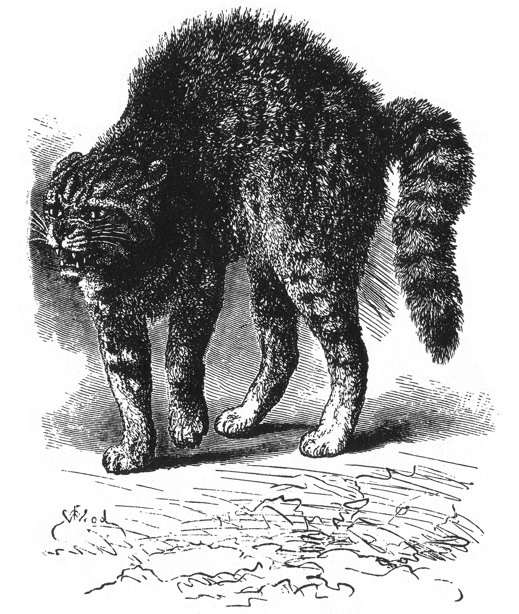 Figure 15 from Charles Darwin's The Expression of the Emotions in Man and Animals. Caption reads "FIG. 15.—Cat terrified at a dog. From life, by Mr. Wood." Author's signature is at bottom left. See also figures 9-14 and 18 by the same author.